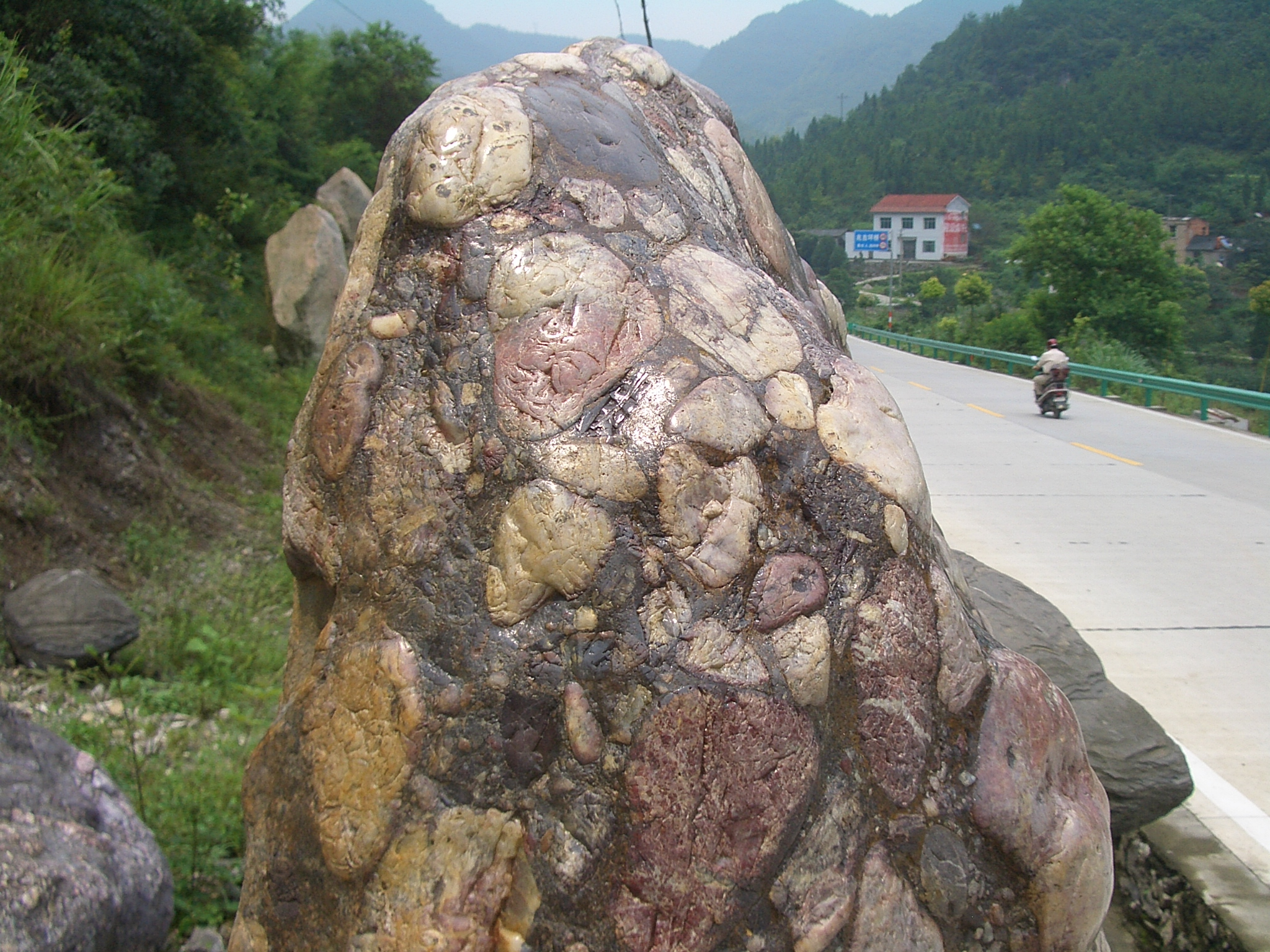 Numerous quarries along Hubei route S334 in Yiling Disrtrict west of Yichang advertise their existence and products by placing a row of "interesting" stones along the roadway.